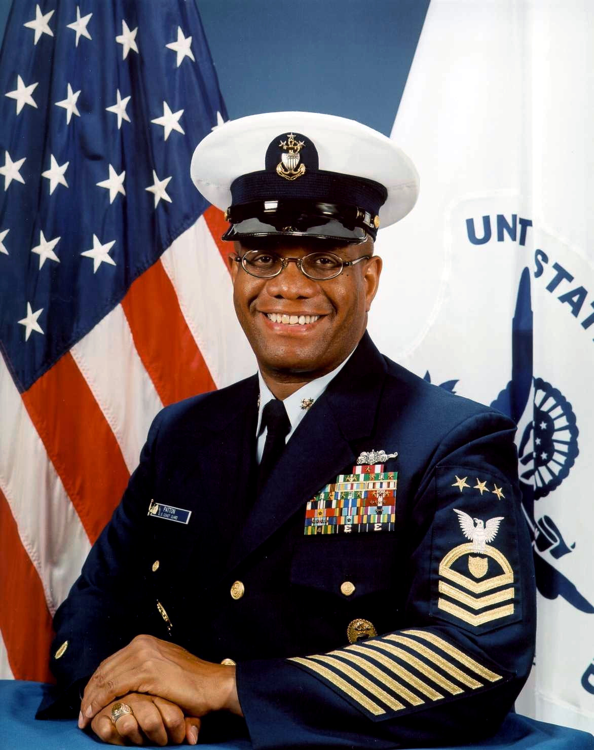 Master Chief Patton served as the Eighth Master Chief Petty Officer of the US Coast Guard from May 22, 1998 to October 10, 2002.